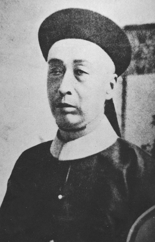 Zhang Bishi (1841－1916)